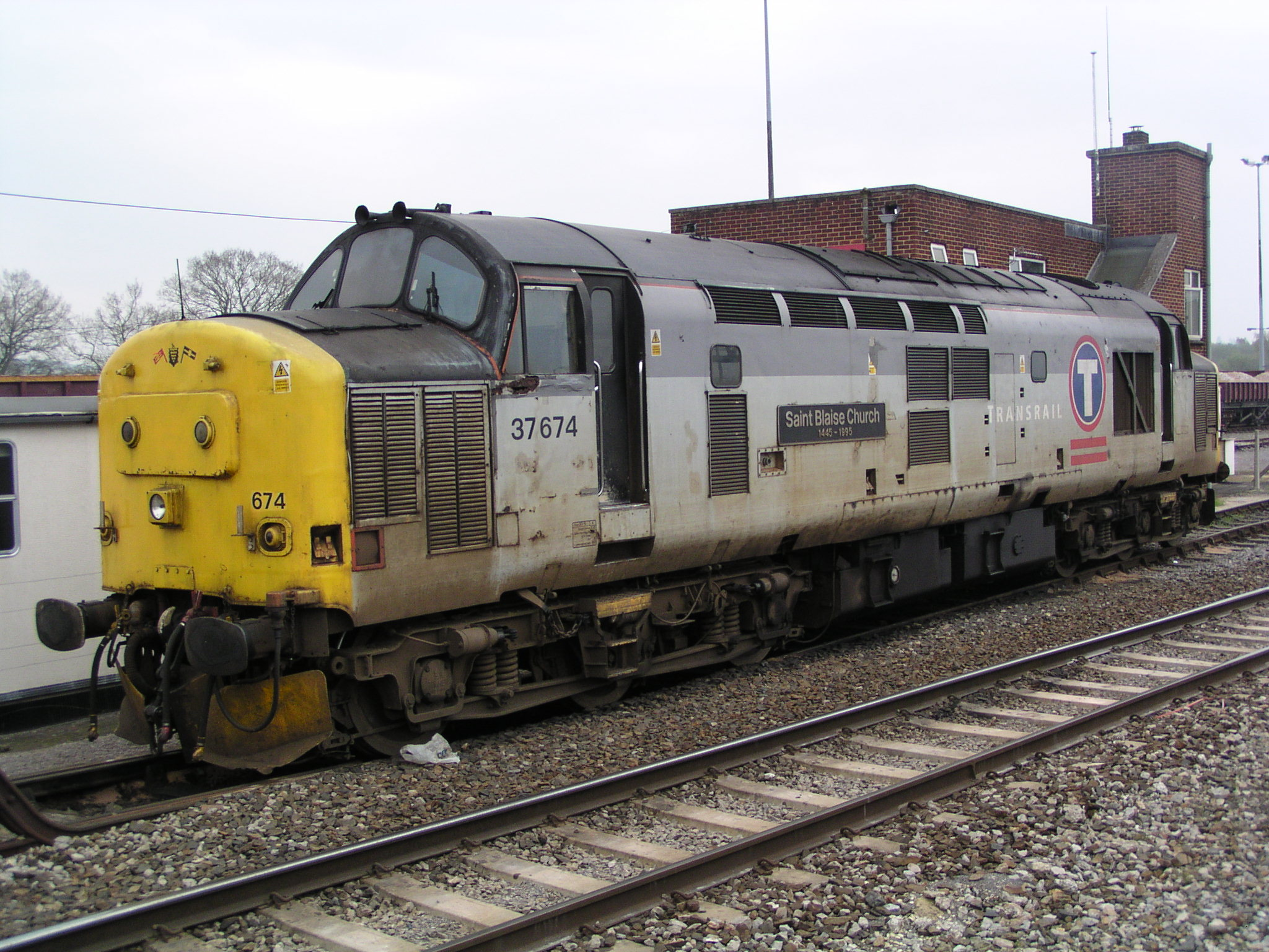 BR Class 37/5, no. 37674 "Saint Blaise Church 1445-1995" at Westbury on 16 April 2004. This locomotive is owned by EWS and still carries the obsolete Trans-Rail livery. It is currently stored, but could be reinstated with relative ease if required.